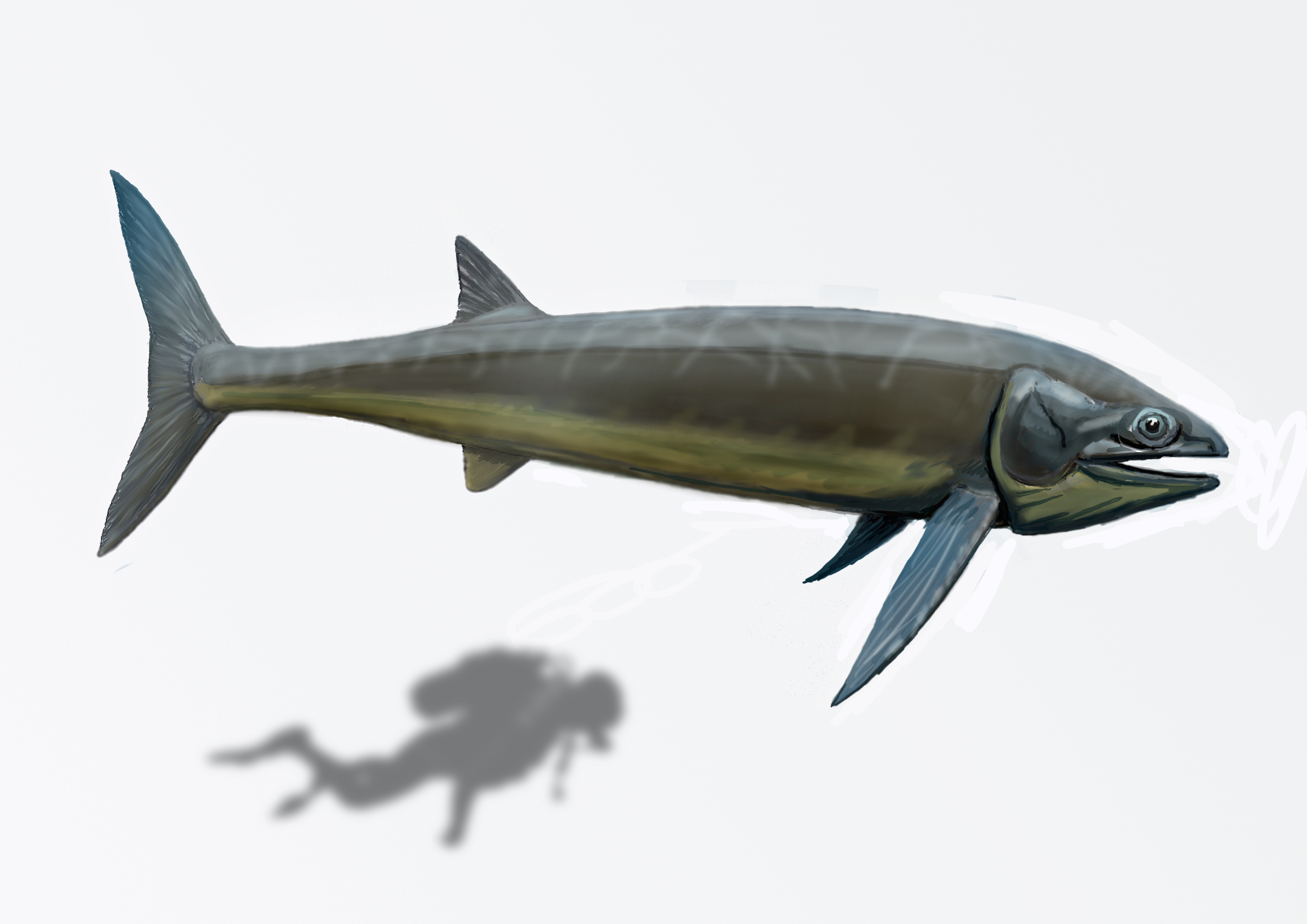 Reconstruction of Bonnerichthys gladius , giant pachycormid fish from Late Cretaceous of North America